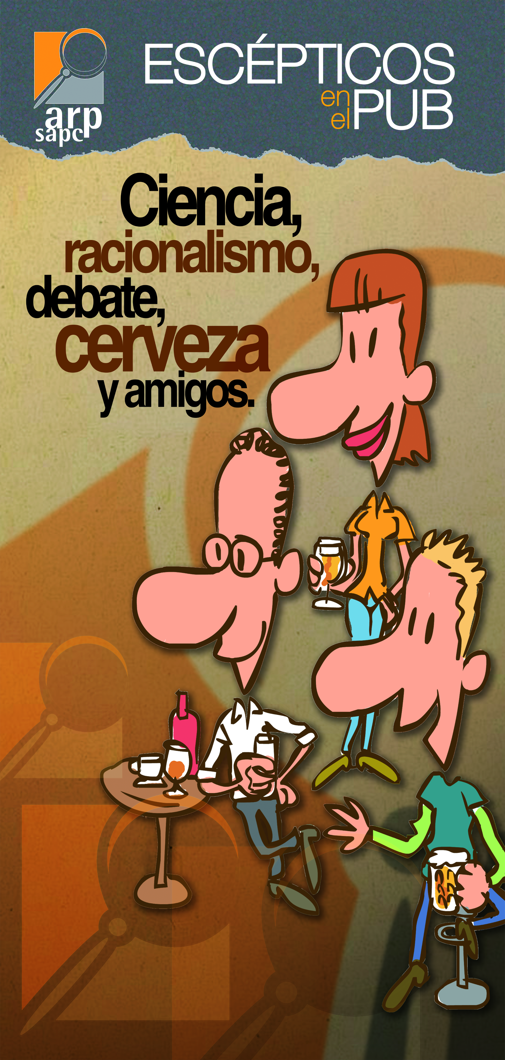 Rollup screen from Madrid Skeptics in the Pub (Escépticos en el Pub Madrid), organised by the Spanish skeptical association ARP-SAPC. The text says "Science, rationalism, debate, beer and friends."